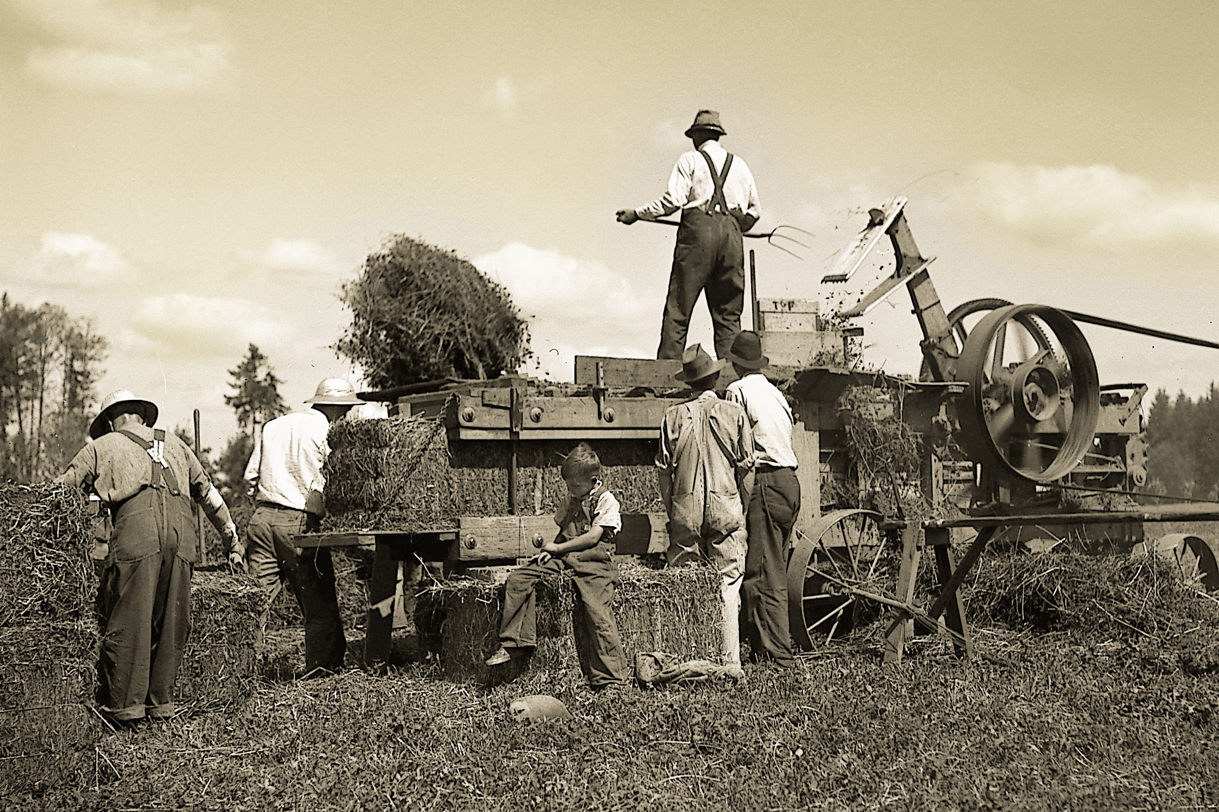 Original Collection: Gifford Photographic Collection Item Number: P 218 SG 2 0694a You can find this image by searching for the item number by clicking here. Want more? You can find more digital resources online. We're happy for you to share this digital image within the spirit of The Commons; however, certain restrictions on high quality reproductions of the original physical version may apply. To read more about what “no known restrictions” means, please visit the Special Collections & Archives website. or contact staff at the OSU Special Collections & Archives Research Center for details.